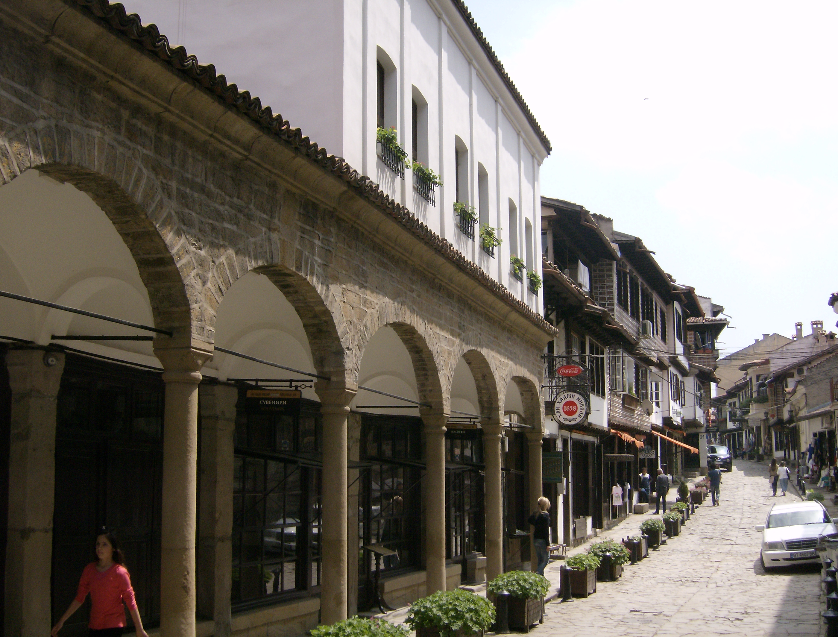 Samovodska Charshia